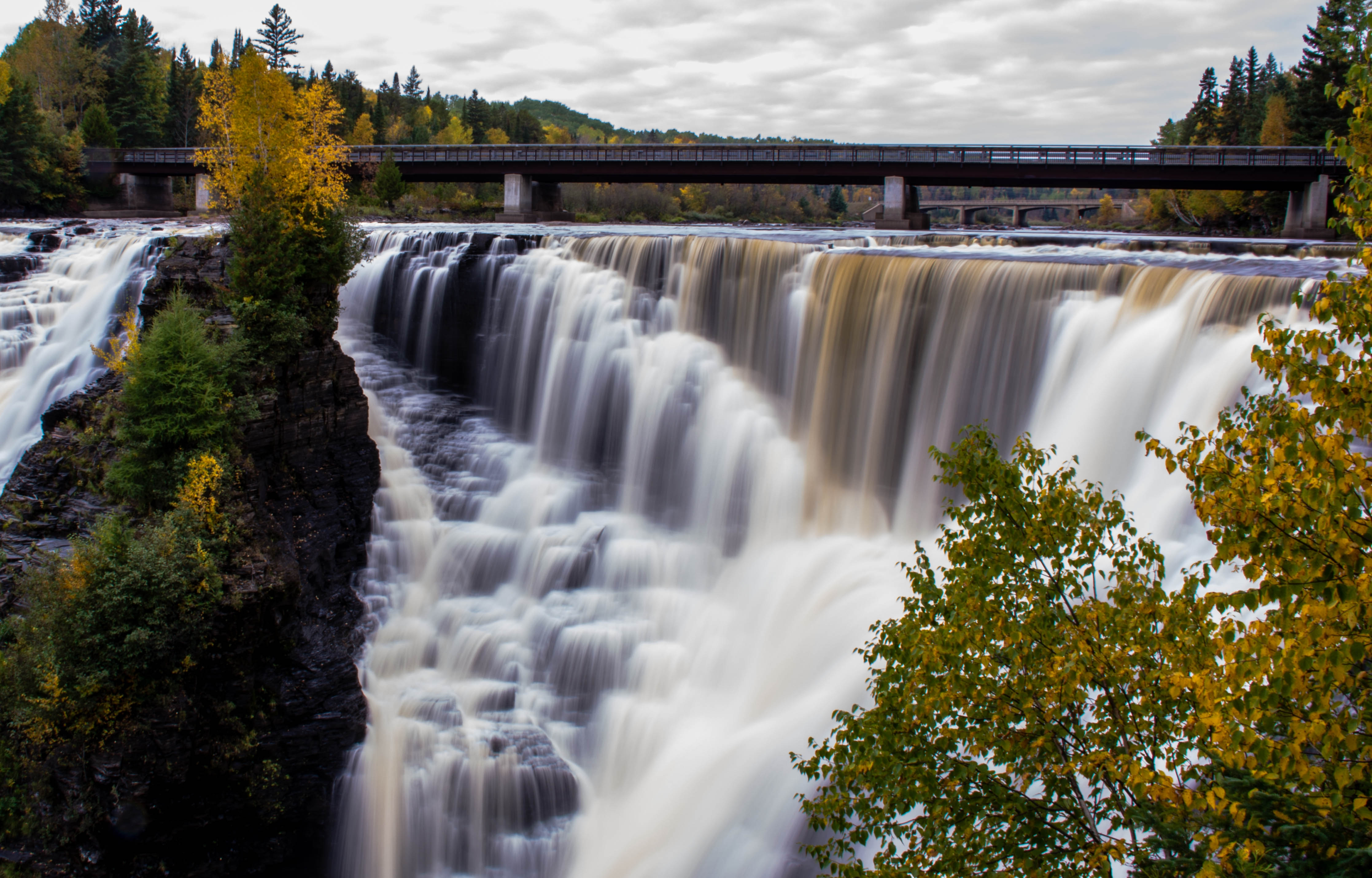 Kakabeka Falls in Kakabeka Falls Provincial Park This photo was taken in a protected area in Canada, Wikidata item Kakabeka Falls Provincial Park (Q22505323)